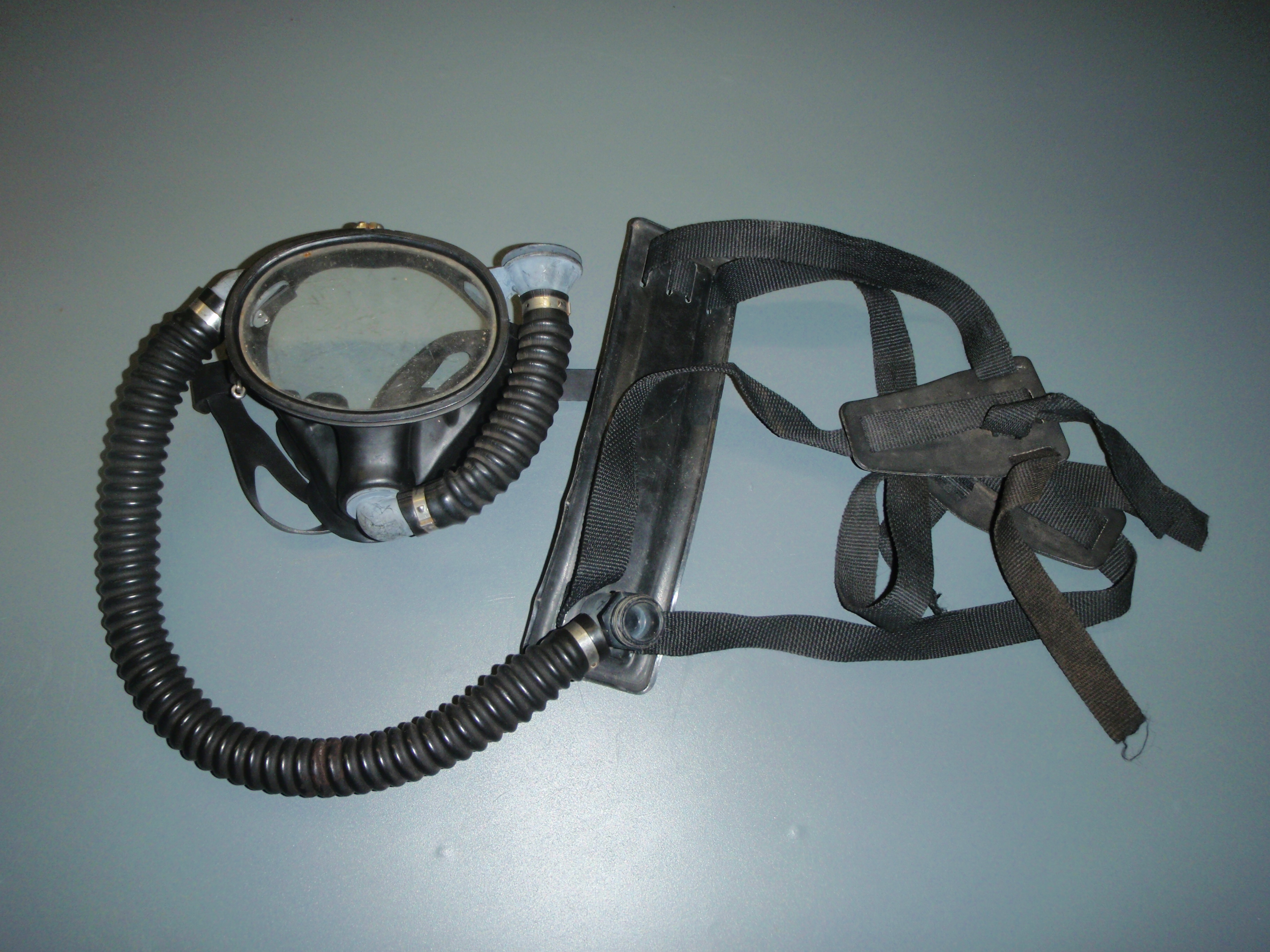 A lightweight free flow full face mask made for use with an airline supplied by a small compressor mounted on a float